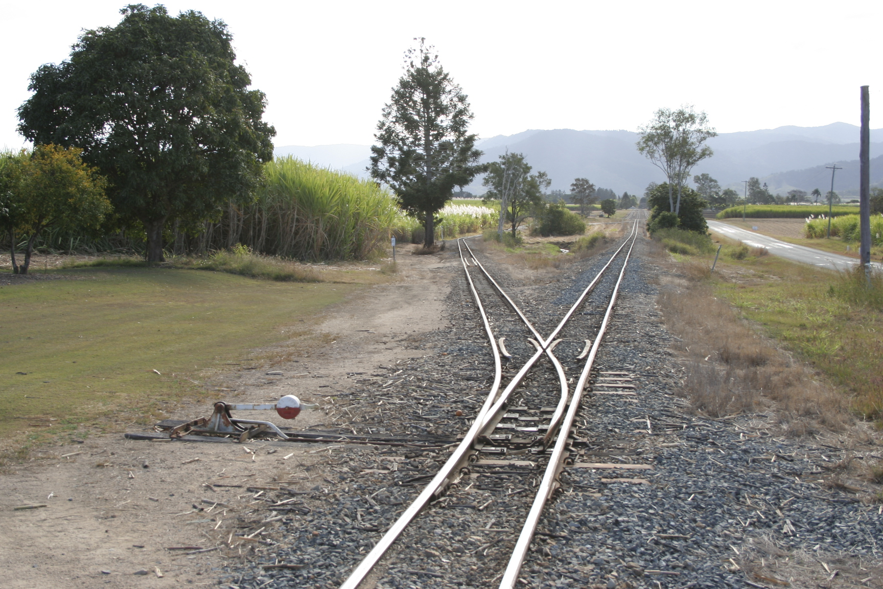 Sugat tramline near Pioneer River, west of MacKay